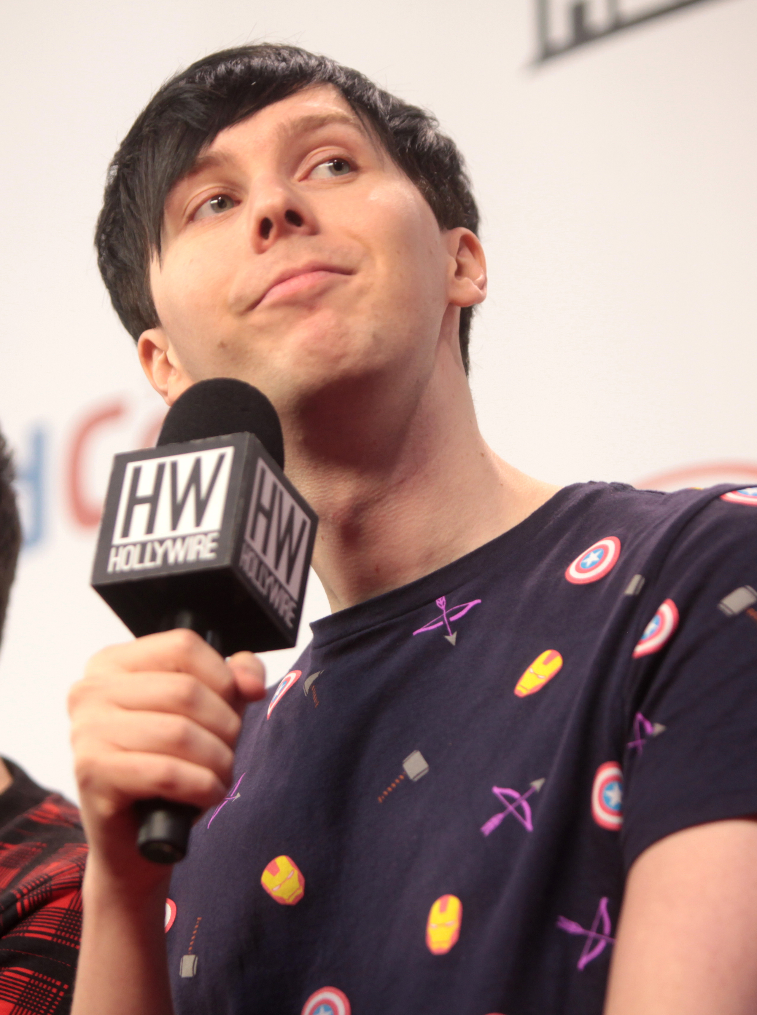 Phil Lester speaking at the 2014 VidCon on June 28, 2014.